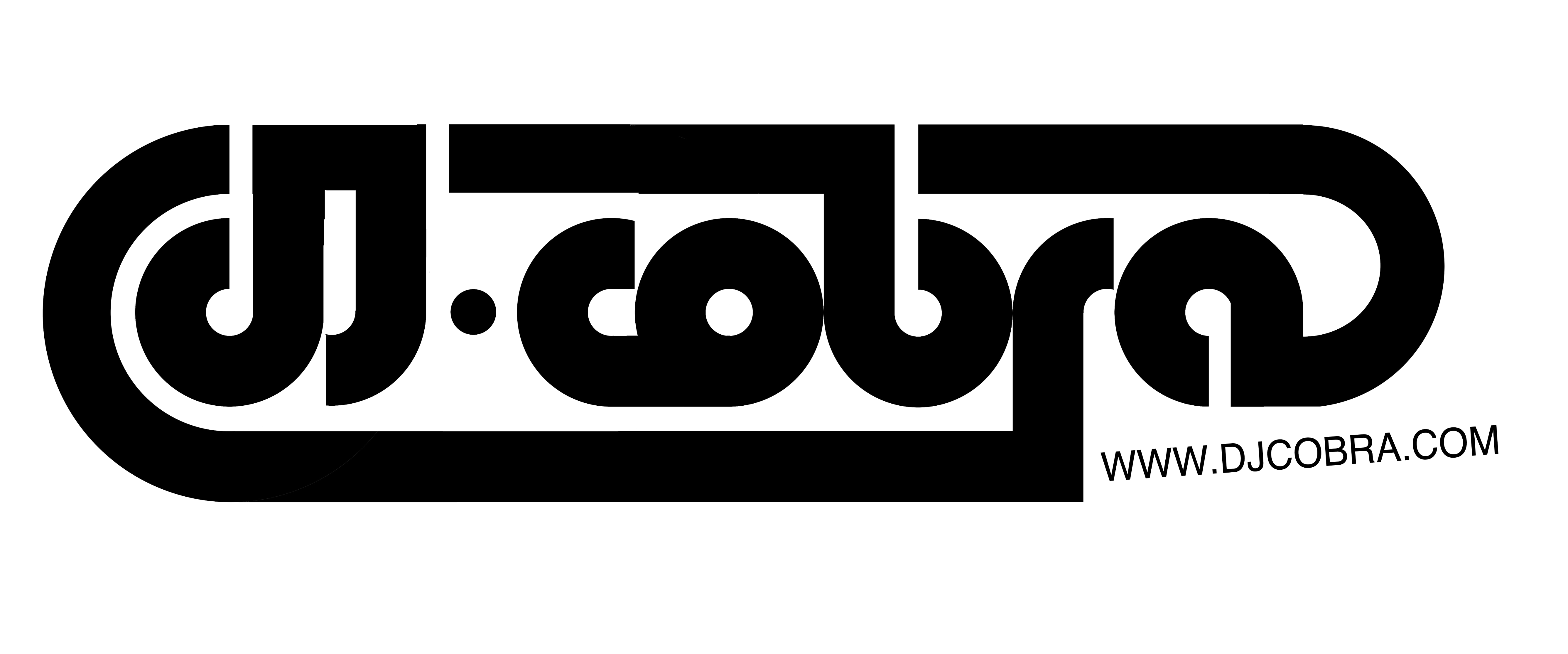 DJ ADI Logo